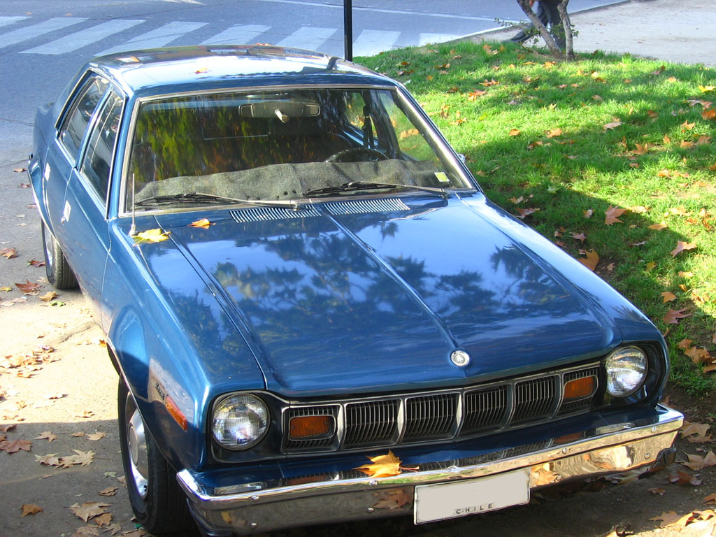 1977 AMC Hornet Sedan